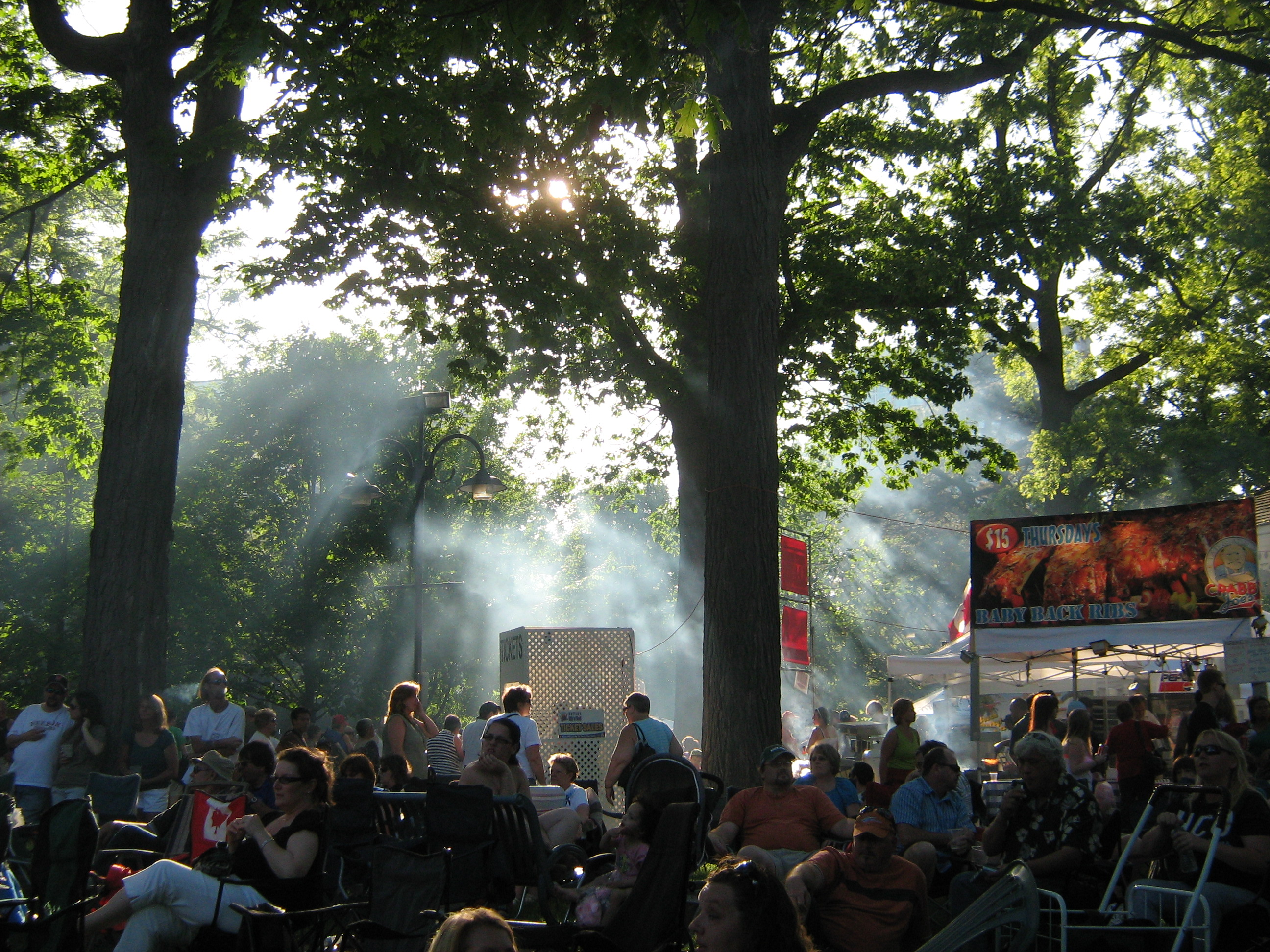 Rotary Rib'N'Roll May/2010 @ City of Brampton Gage Park